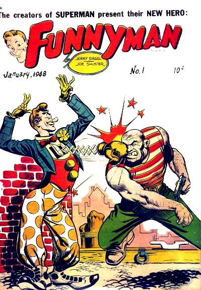 Art by Joe Shuster.